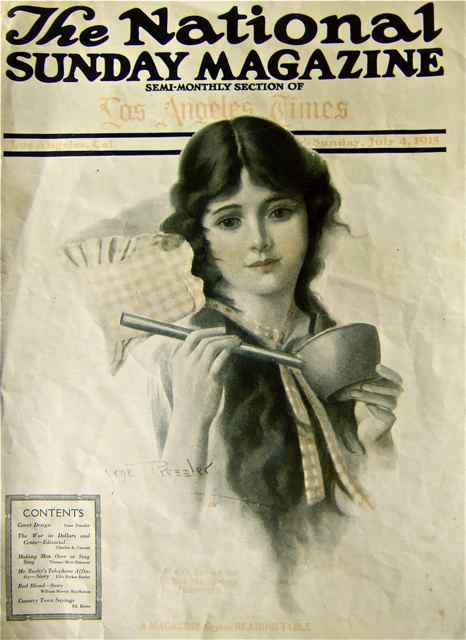 Cover of The National Sunday Magazine as printed in the Los Angeles Times of July 4, 1915. The artist was Gene Pressler. This was a camera shot of the original Sunday supplement as taken by the uploader.